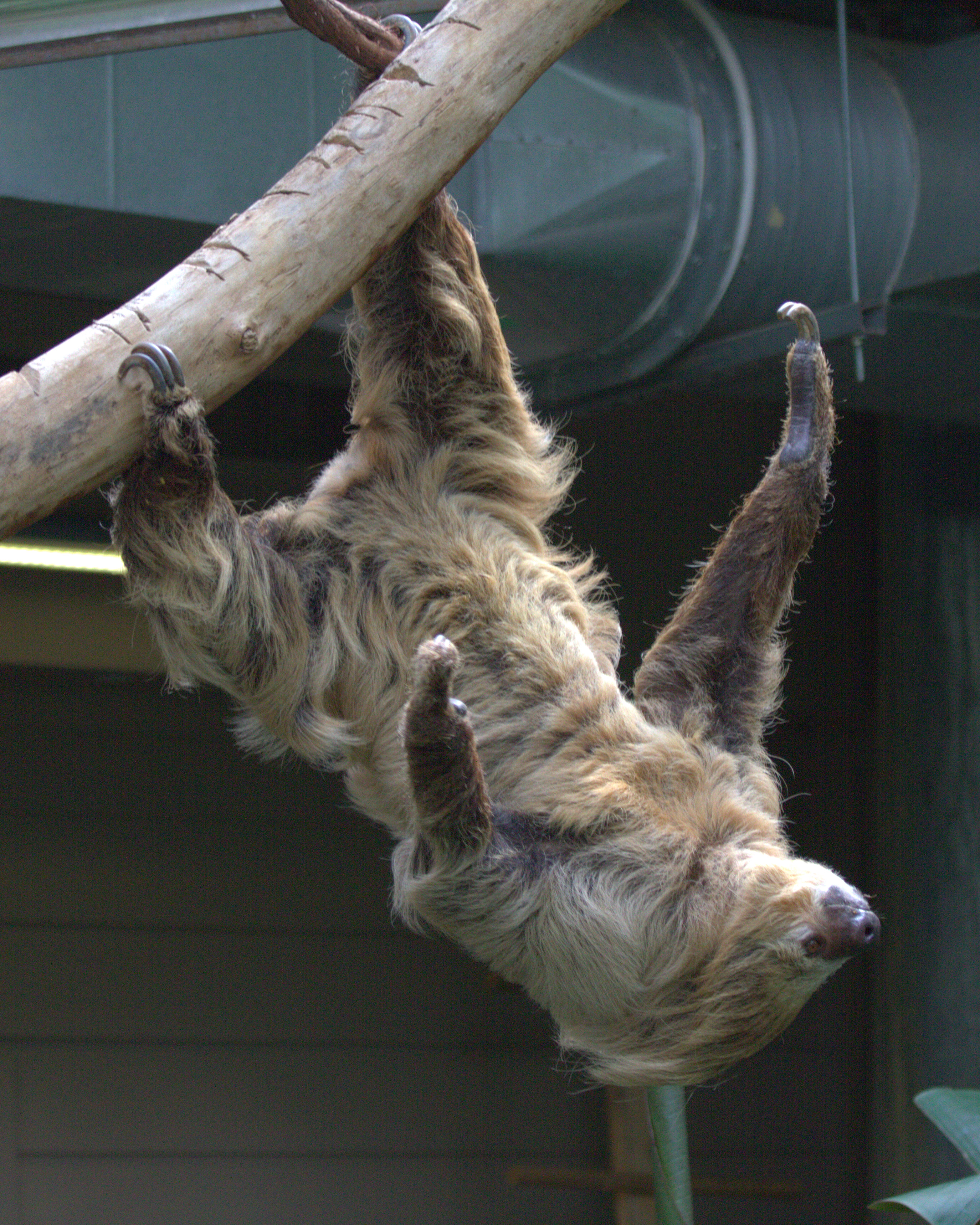 Two toed sloth at Cincinnati Zoo